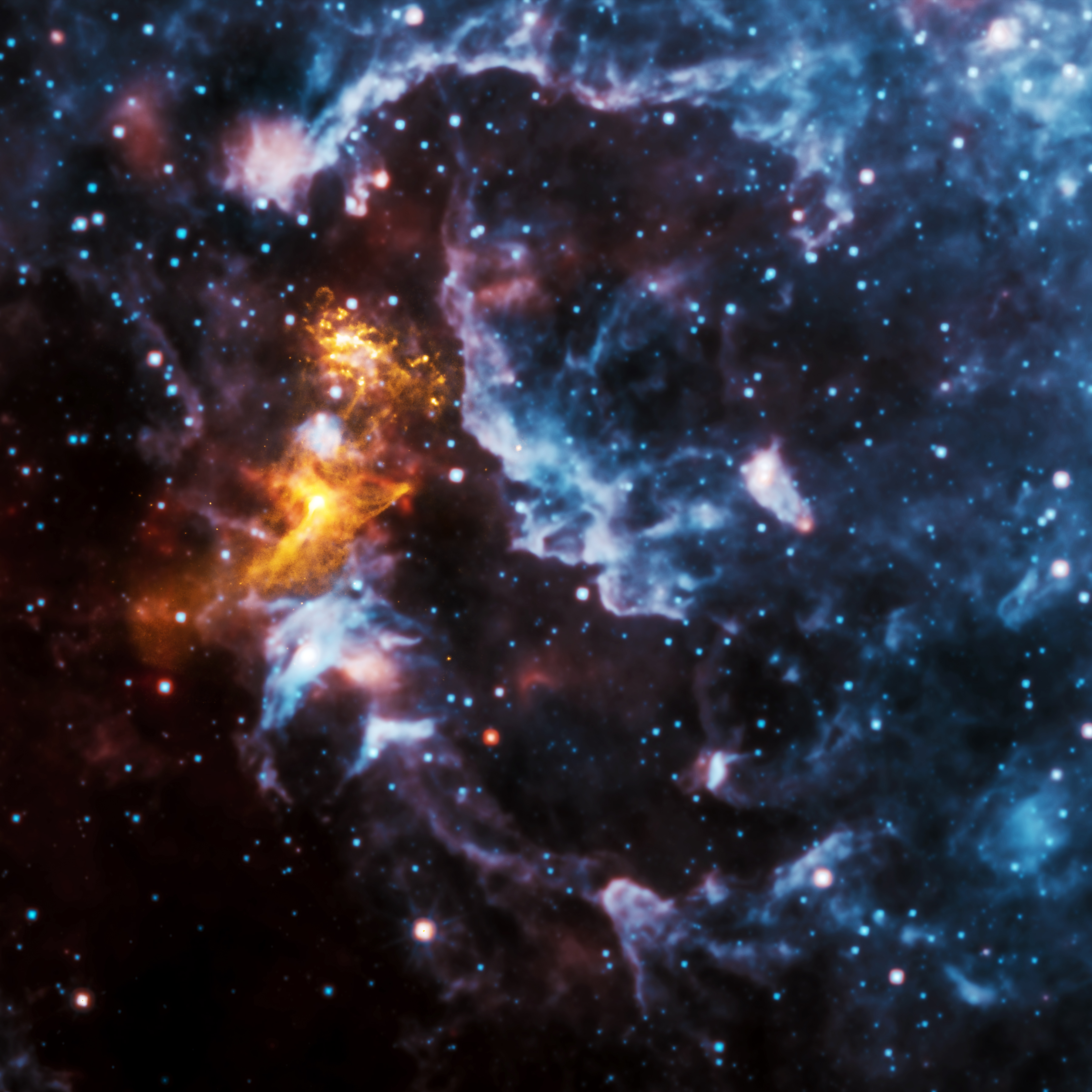 October 23, 2014 Illusions in the Cosmic Clouds Pareidolia is the psychological phenomenon where people see recognizable shapes in clouds, rock formations, or otherwise unrelated objects or data. There are many examples of this phenomenon on Earth and in space. When an image from NASA's Chandra X-ray Observatory of PSR B1509-58 -- a spinning neutron star surrounded by a cloud of energetic particles --was released in 2009, it quickly gained attention because many saw a hand-like structure in the X-ray emission. In a new image of the system, X-rays from Chandra in gold are seen along with infrared data from NASA's Wide-field Infrared Survey Explorer (WISE) telescope in red, green and blue. Pareidolia may strike again as some people report seeing a shape of a face in WISE's infrared data. What do you see? NASA's Nuclear Spectroscopic Telescope Array, or NuSTAR, also took a picture of the neutron star nebula in 2014, using higher-energy X-rays than Chandra. PSR B1509-58 is about 17,000 light-years from Earth. JPL, a division of the California Institute of Technology in Pasadena, manages the WISE mission for NASA. NASA's Marshall Space Flight Center in Huntsville, Alabama, manages the Chandra program for. The Smithsonian Astrophysical Observatory in Cambridge, Massachusetts, controls Chandra's science and flight operations.